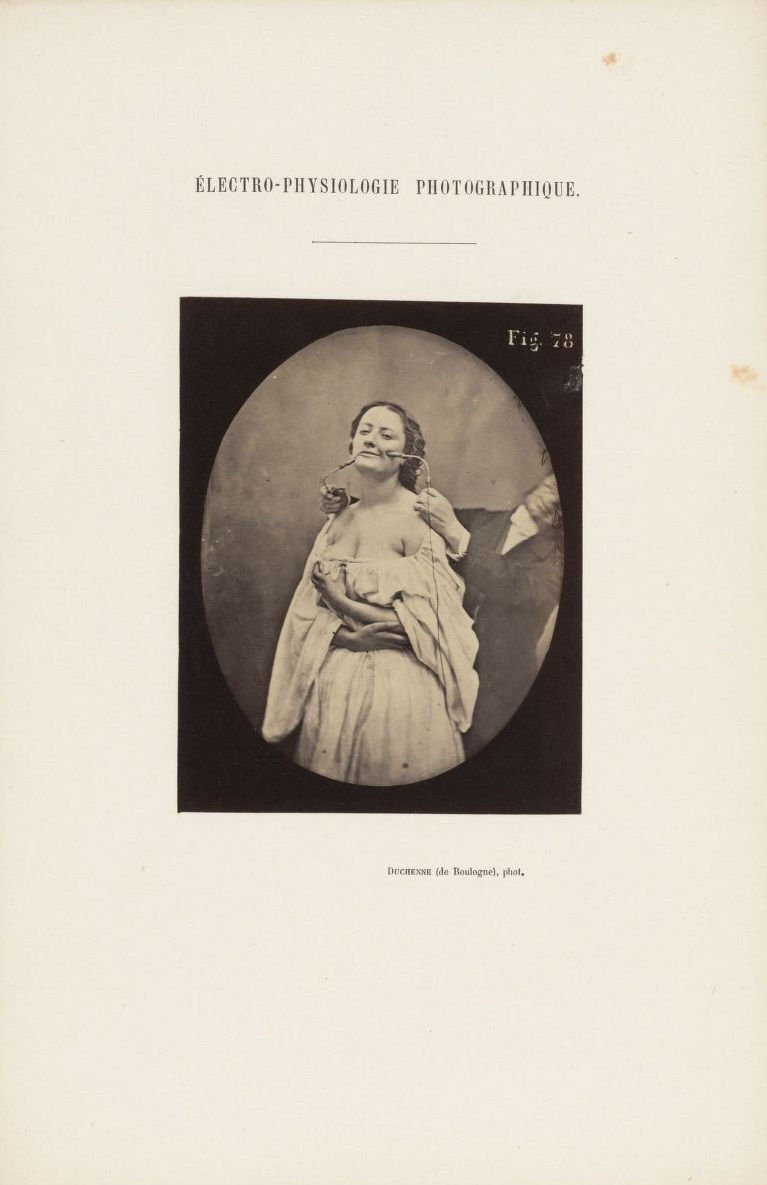 Image from Mécanisme de la physionomie humaine, ou, Analyse électro-physiologique de l’expression des passions, 1862, by Guillaume-Benjamin Duchenne (1806-1875). TypPh 815.62.3402 (A), Houghton Library, Harvard University